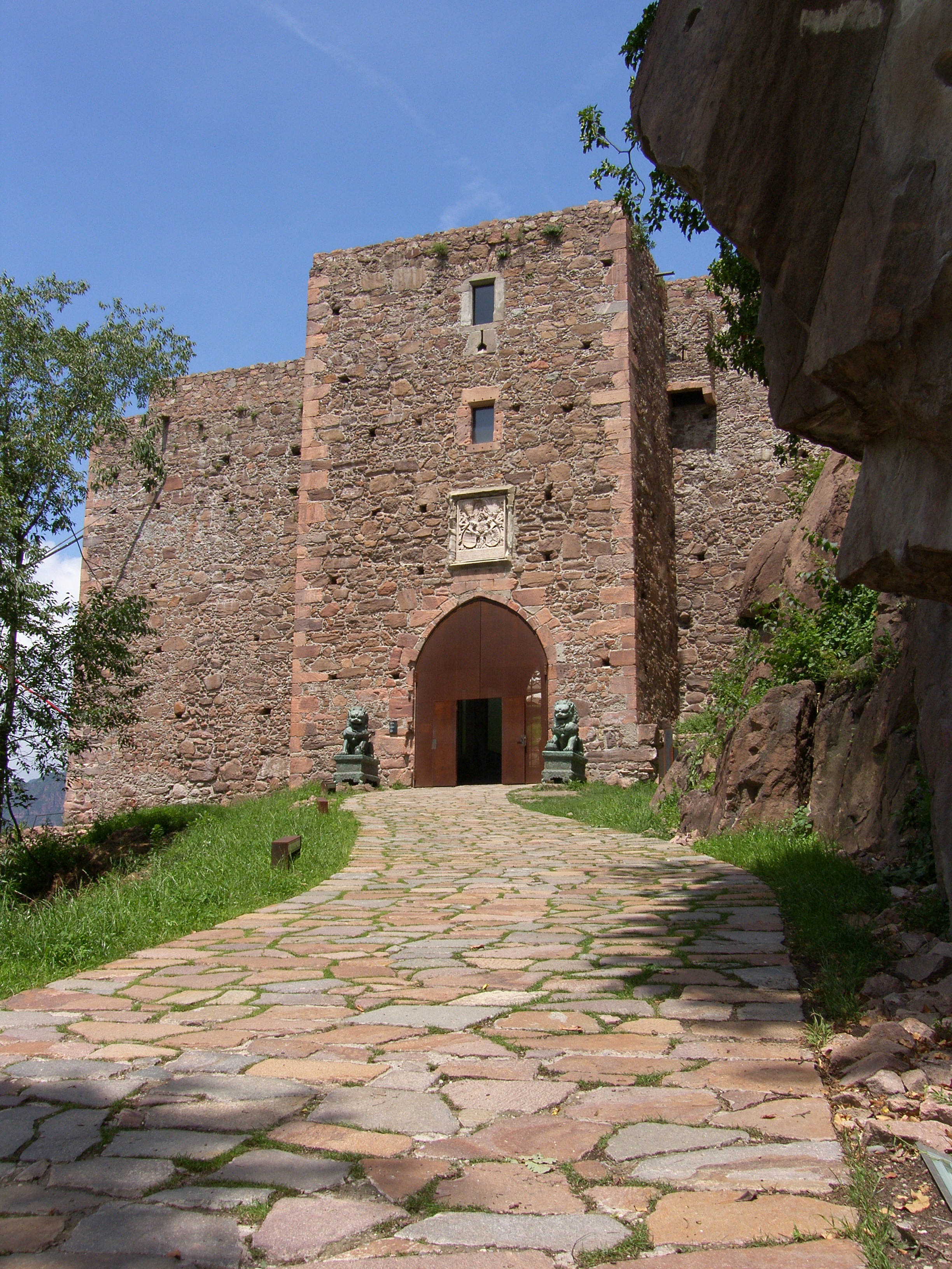 Castle Sigmundskron (Firmian), Bozen, South Tyrol, entrance